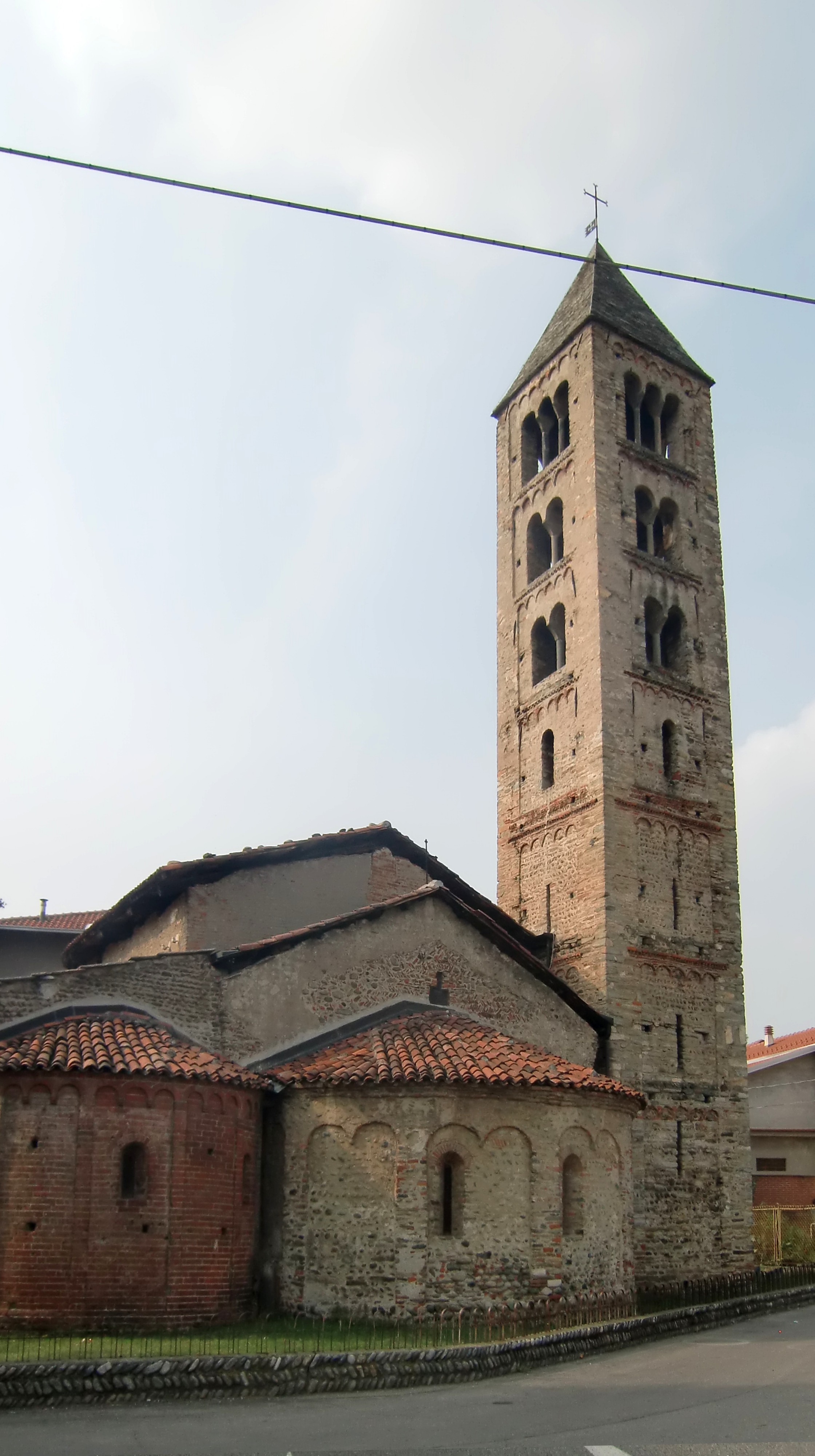 Romanesque church of San Martno di Liramo, Cirié (Torino), Italy